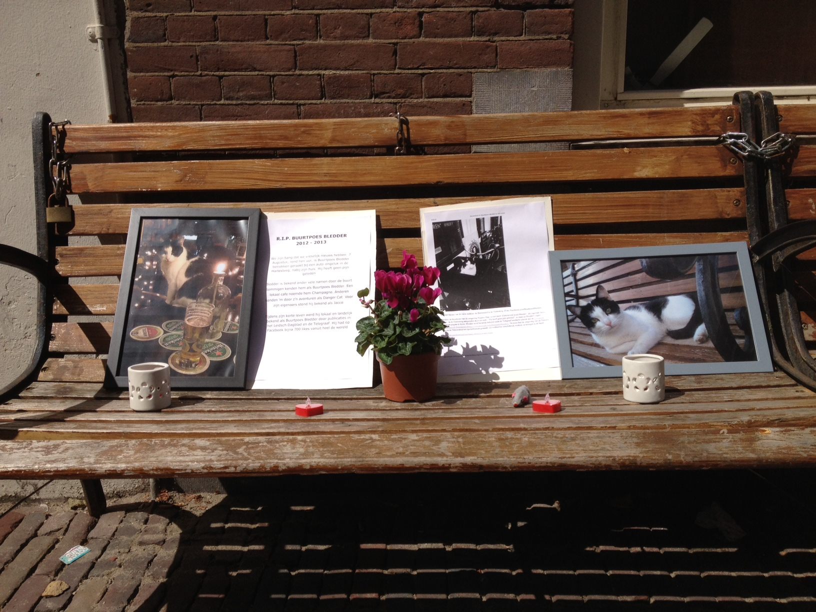 A photo of a small memorial for Bledder.